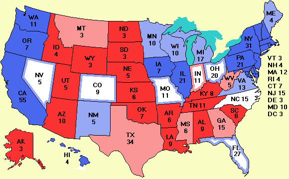 Predicted distribution of states on Oct. 9 2008, US Presidential elections